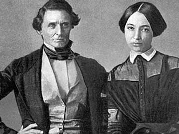 A more accurate depiction of the daguerreotype of Jefferson and Varina Davis. Many other photos circulated around the web show Varina Davis with slightly different facial features, suggesting that she may have been of mixed race. While Varina Davis may have been of mixed race, it is unethical to try and rewrite history by editing photos of individuals to prove a suspicion.